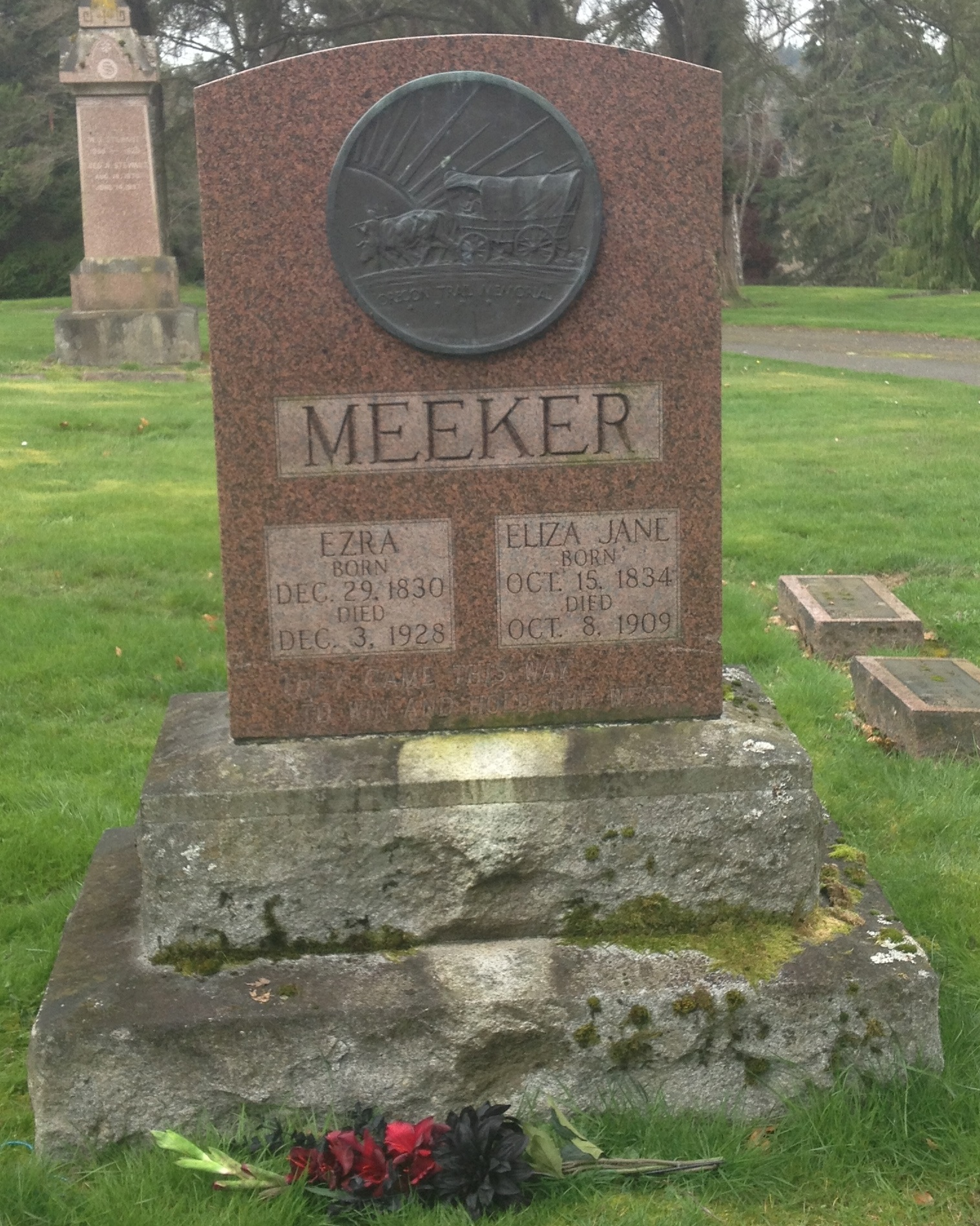 Gravesite of Ezra Meeker and Eliza Jane Meeker, Puyallup, Washington